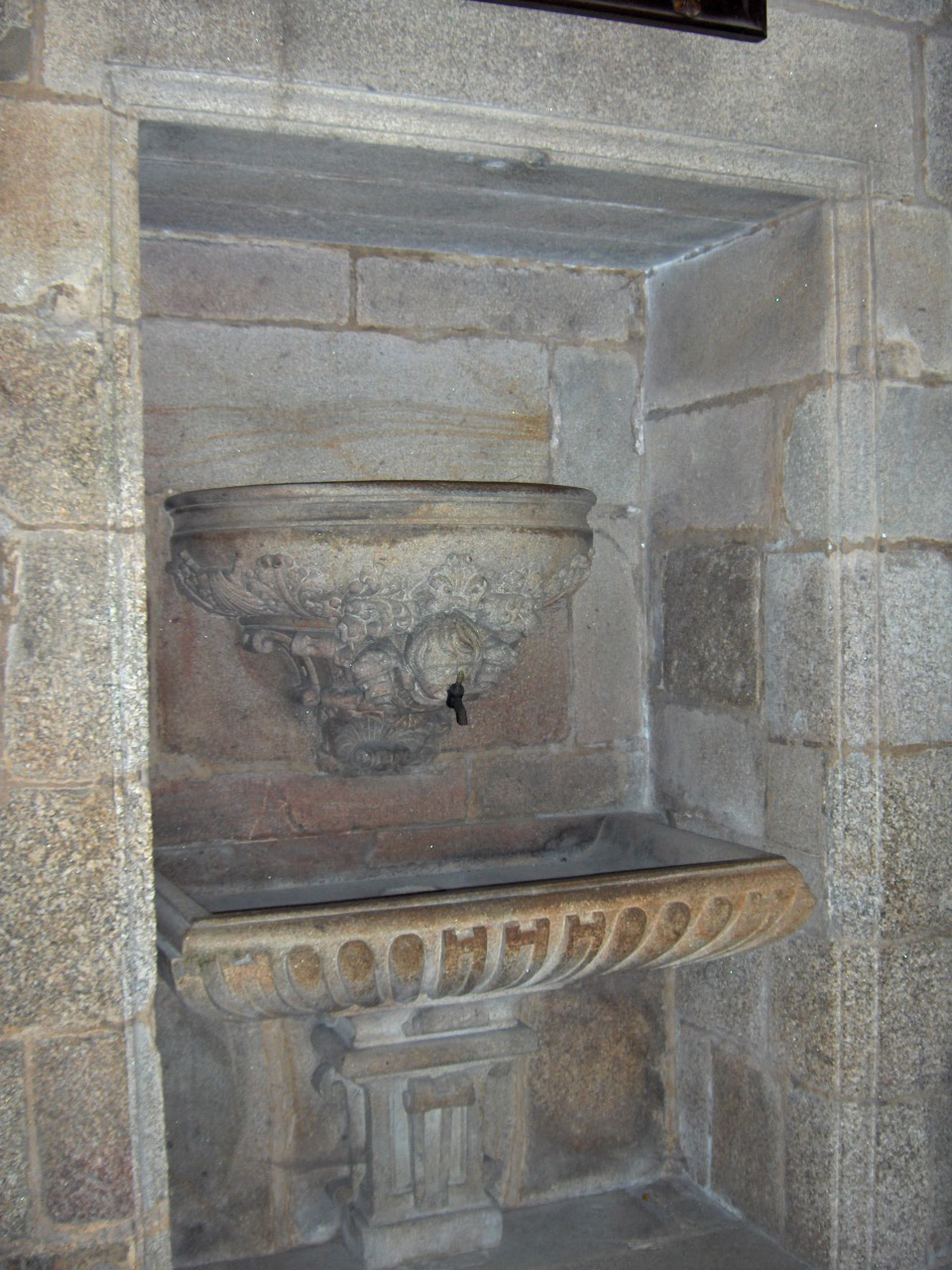 Baptismal font; cathedral of Santiago de Compostela, Spain